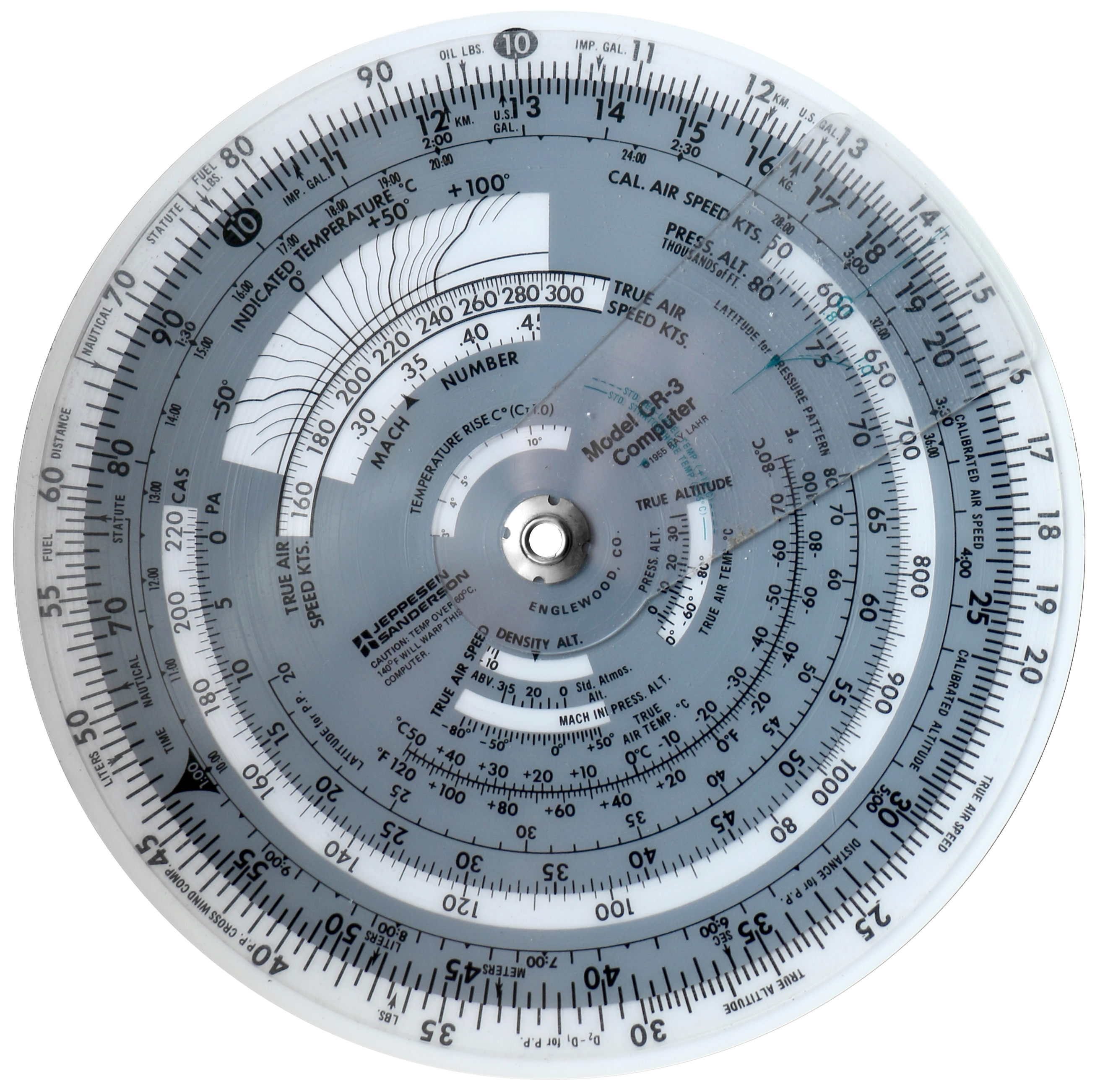 Aviation sliderule